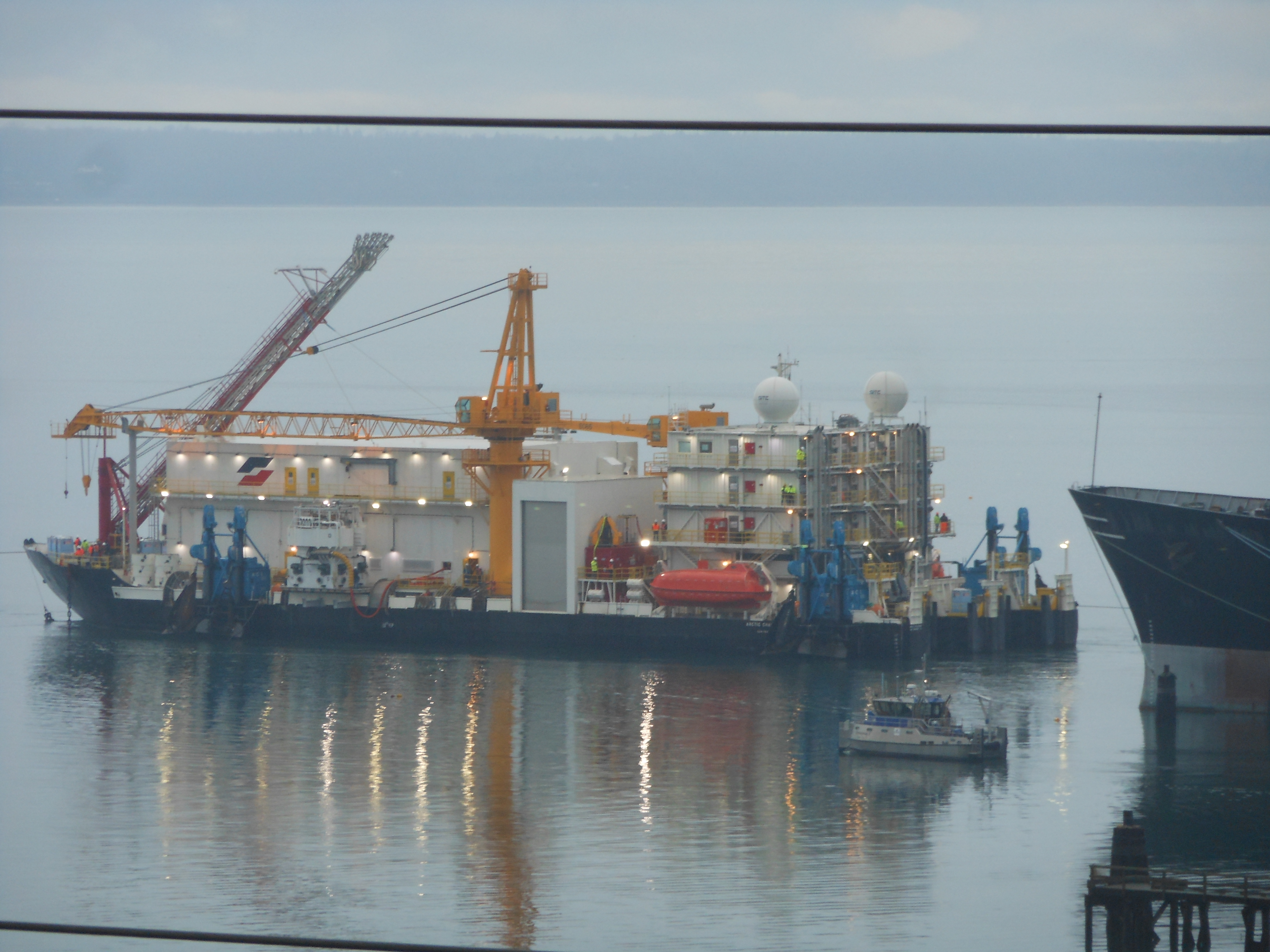 The Arctic Challenger with the newly redesigned and repaired Containment Dome move away from the Port of Bellingham, WA where it had been moored since returning in September 2012 after a catastrophic failure of the first iteration of their containment process.